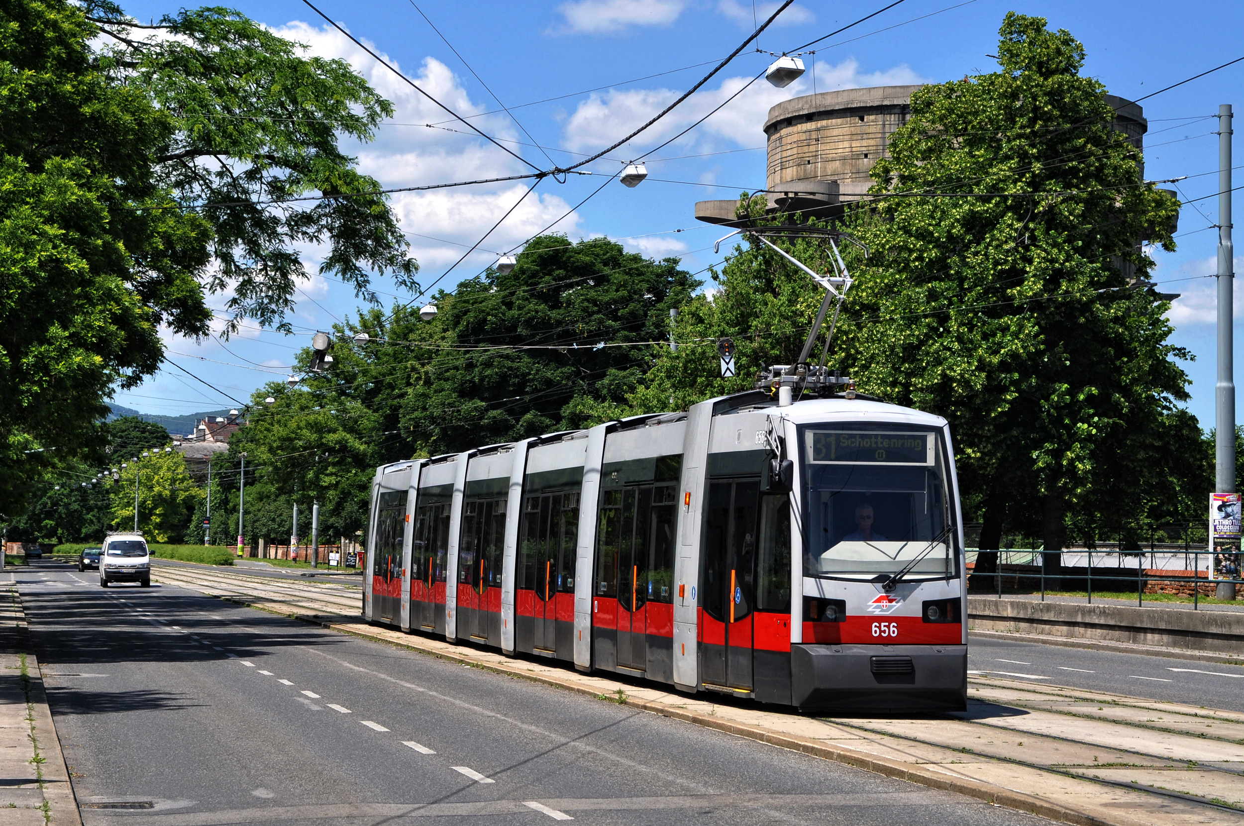 Tram ULF B 656 (Line 31) in the Obere Augartenstraße